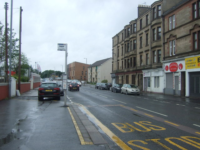 Bus stop on Tollcross Road